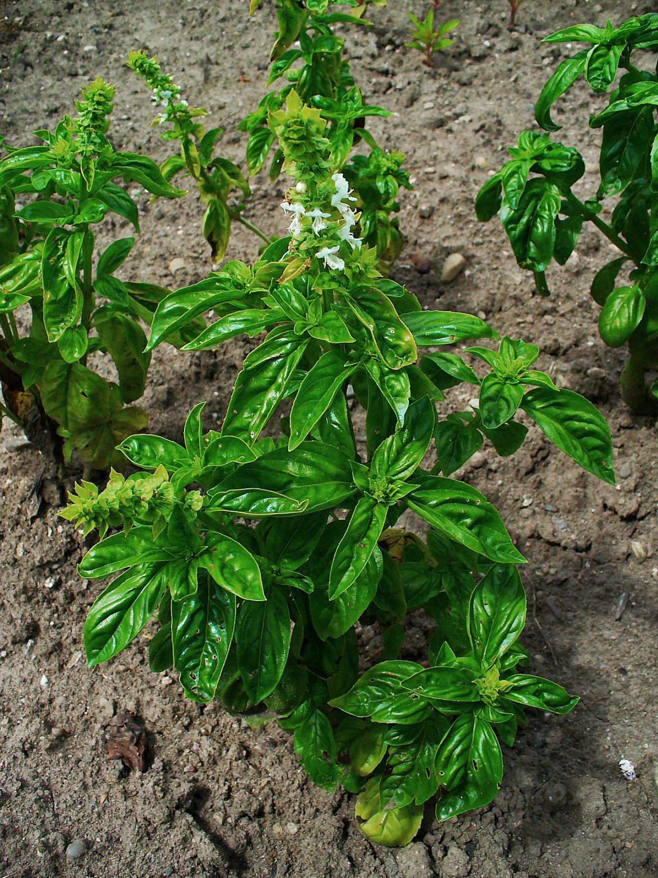 Ocimum basilicum, Lamiaceae, Sweet Basil, habitus.